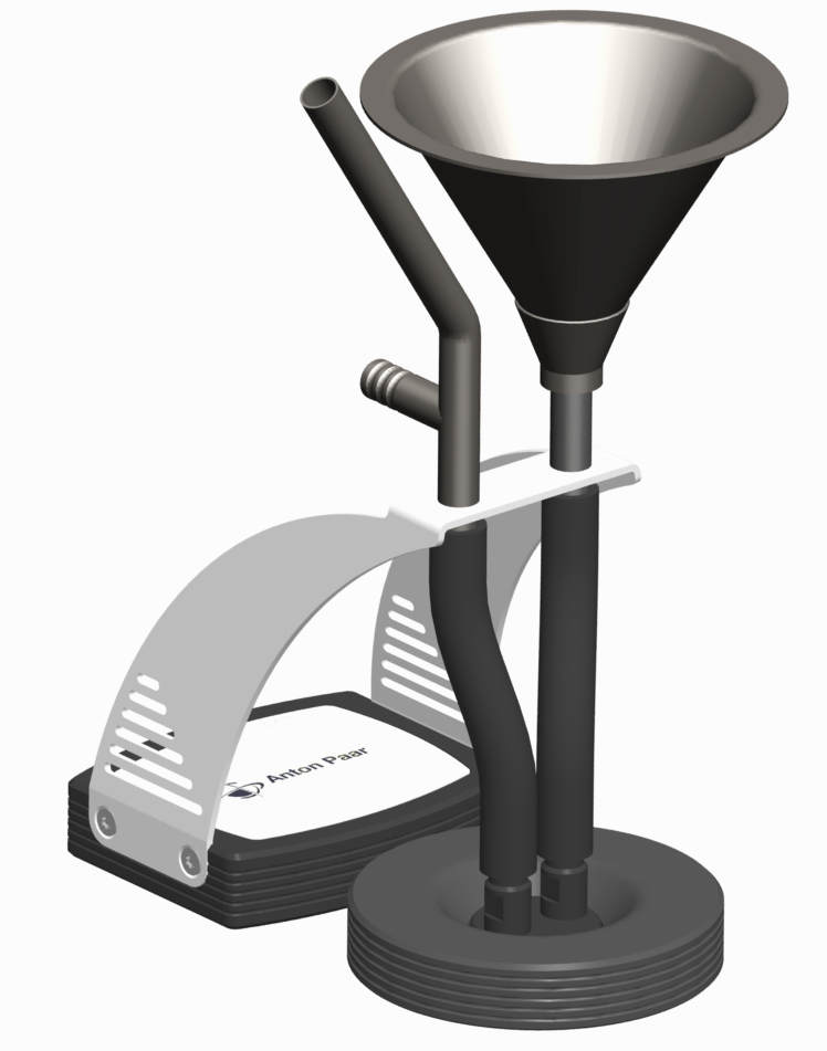 Flow Cell with filling funnel for an automatic refractometer